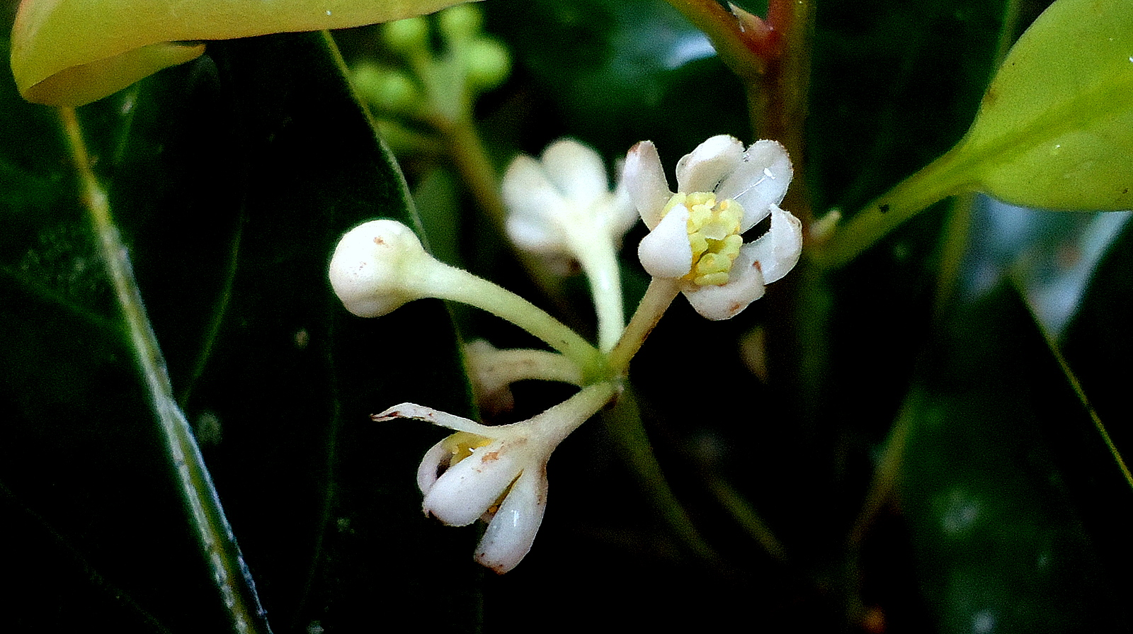 Ocotea spixiana, Lauraceae, Atlantic forest, northeastern Bahia, Brazil